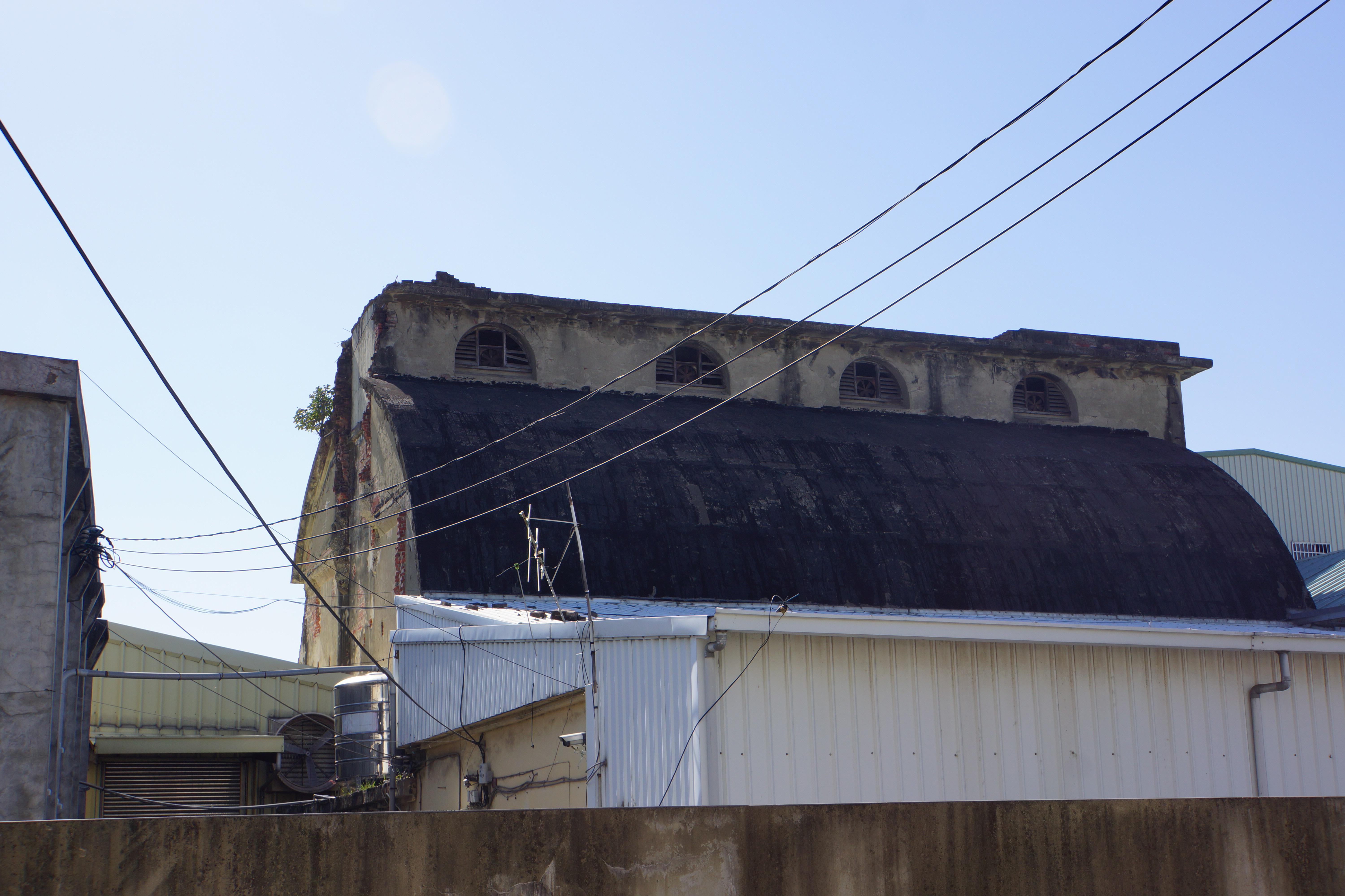 彰化農業倉庫 Zhanghua Agricultural Warehouse